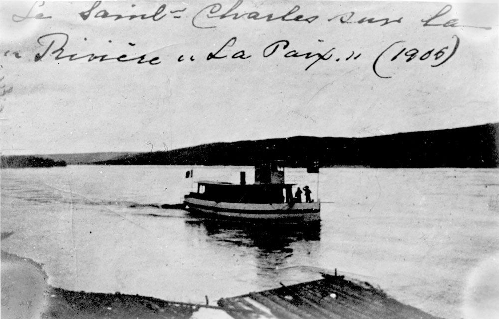 St._Charles_an early_steamship_on_the_upper_Peace_River.